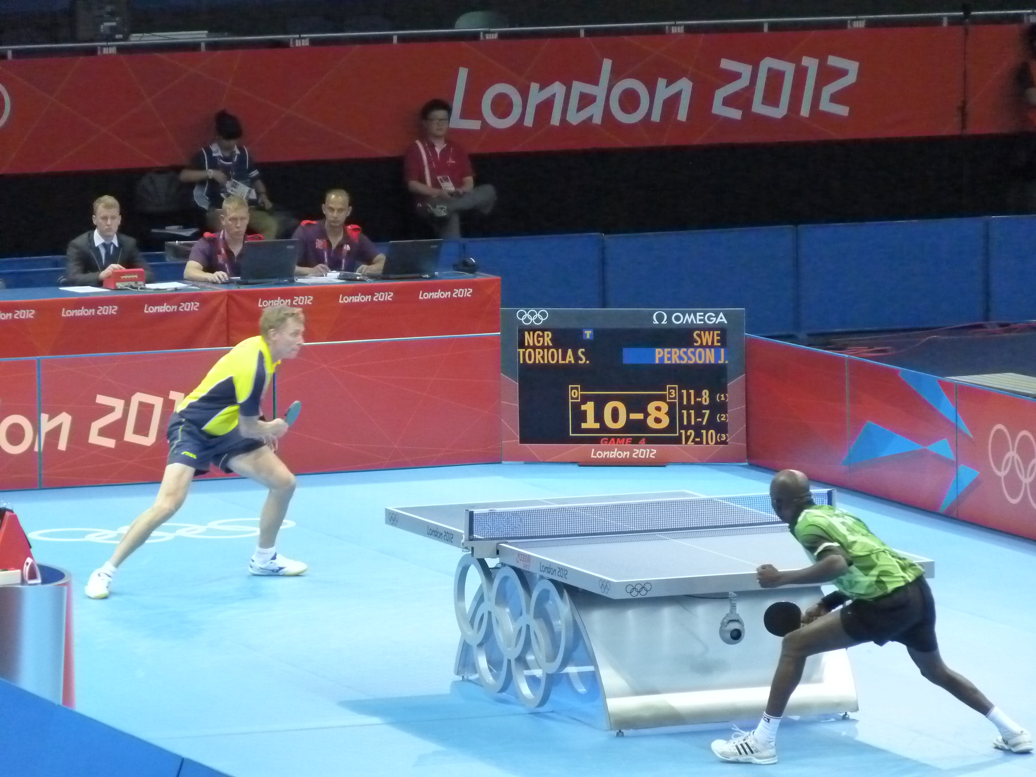 Segun Toriola (Nigeria) v Jorgen Persson (Sewden), 1st round of men's table tennis, ExCel arena, London Olympics, 28 July 2012